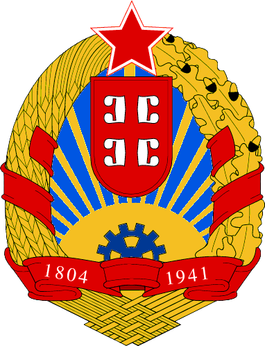 Coat of arms of the Socialist Republic of Serbia Српски (ћирилица): Грб Социјалистичке Републике Србије Srpski (latinica): Grb Socijalističke Republike Srbije